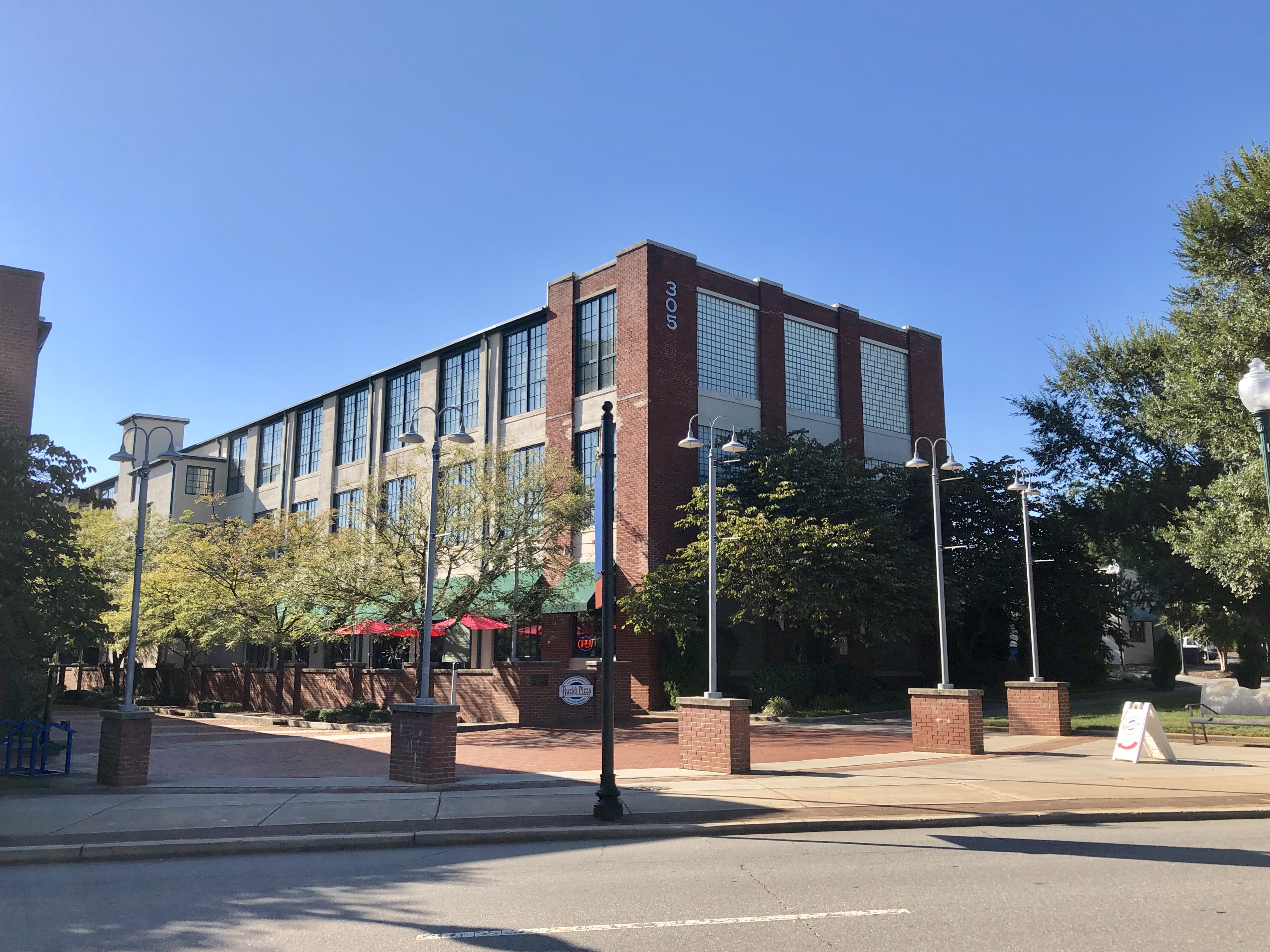 This is part of the Garrou-Morganton Full-Fashioned Hosiery Mills, located on Lenoir Street in Morganton, North Carolina. The complex was built in the 1920s and 1930s, and was listed on the National Register of Historic Places in 1999.